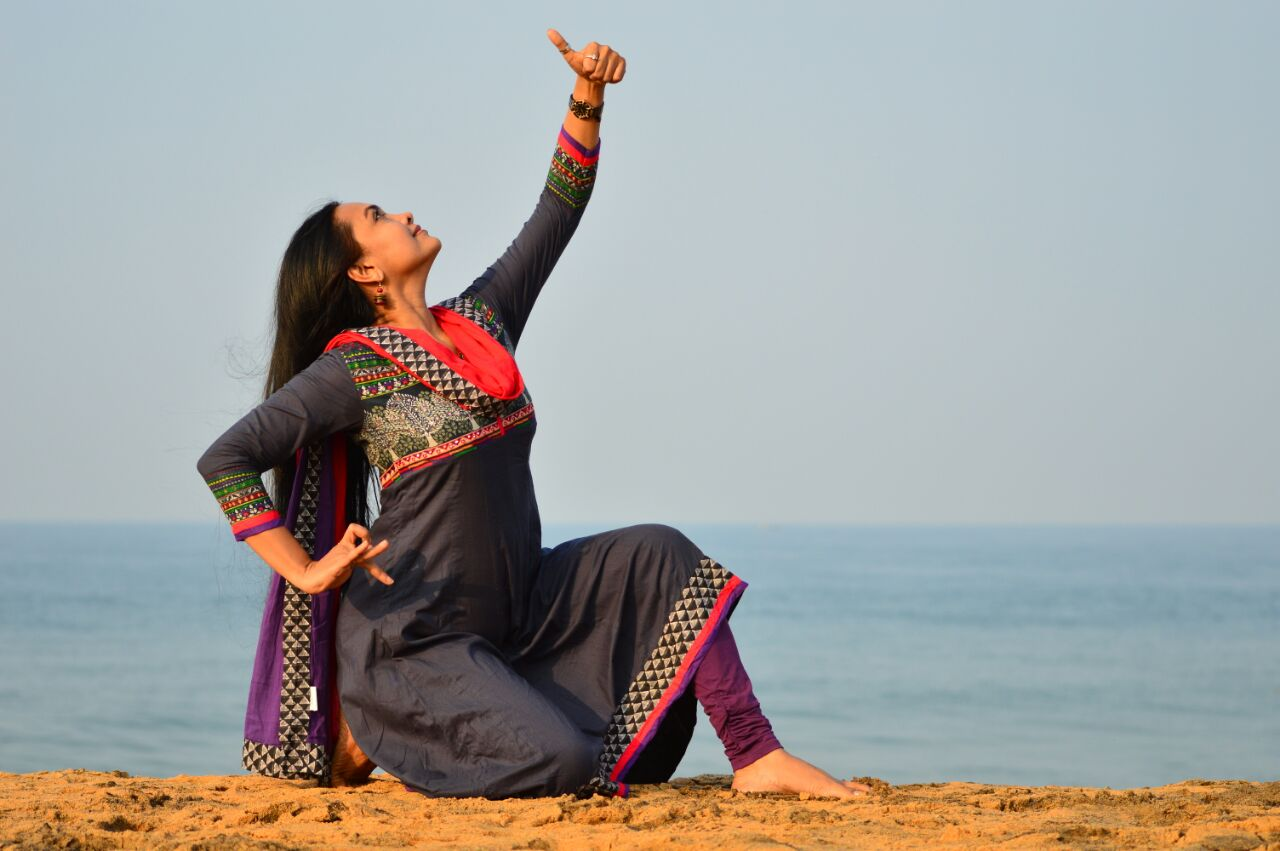 Rajashree at Shanghumugham Beach